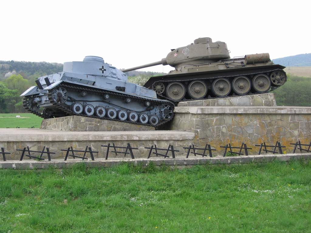 One of memorials of the Dukla Pass battle of 1944, near Ladomirova, on the Slovak side of the Dukla Pass. A German Pz-IV J (left) together with a Soviet T-34-85.